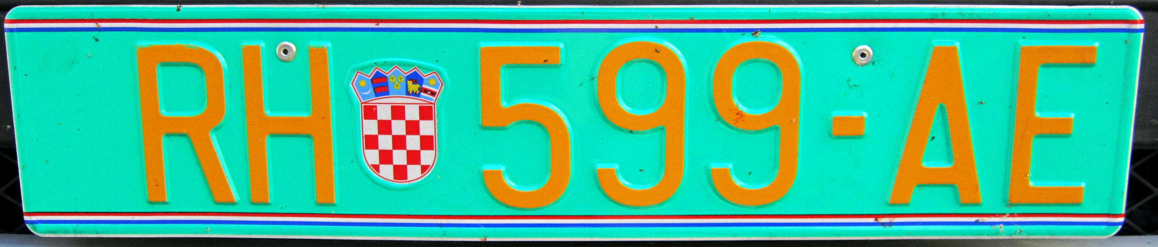 Export license plate from Croatia, RH = Republika Hrvatska (Republic of Croatia)